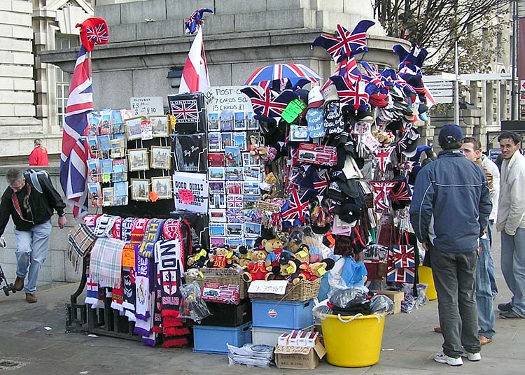 A "Souvenir" store in London, England